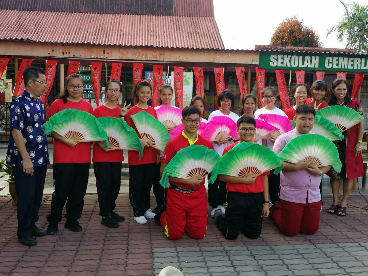 CNY 1